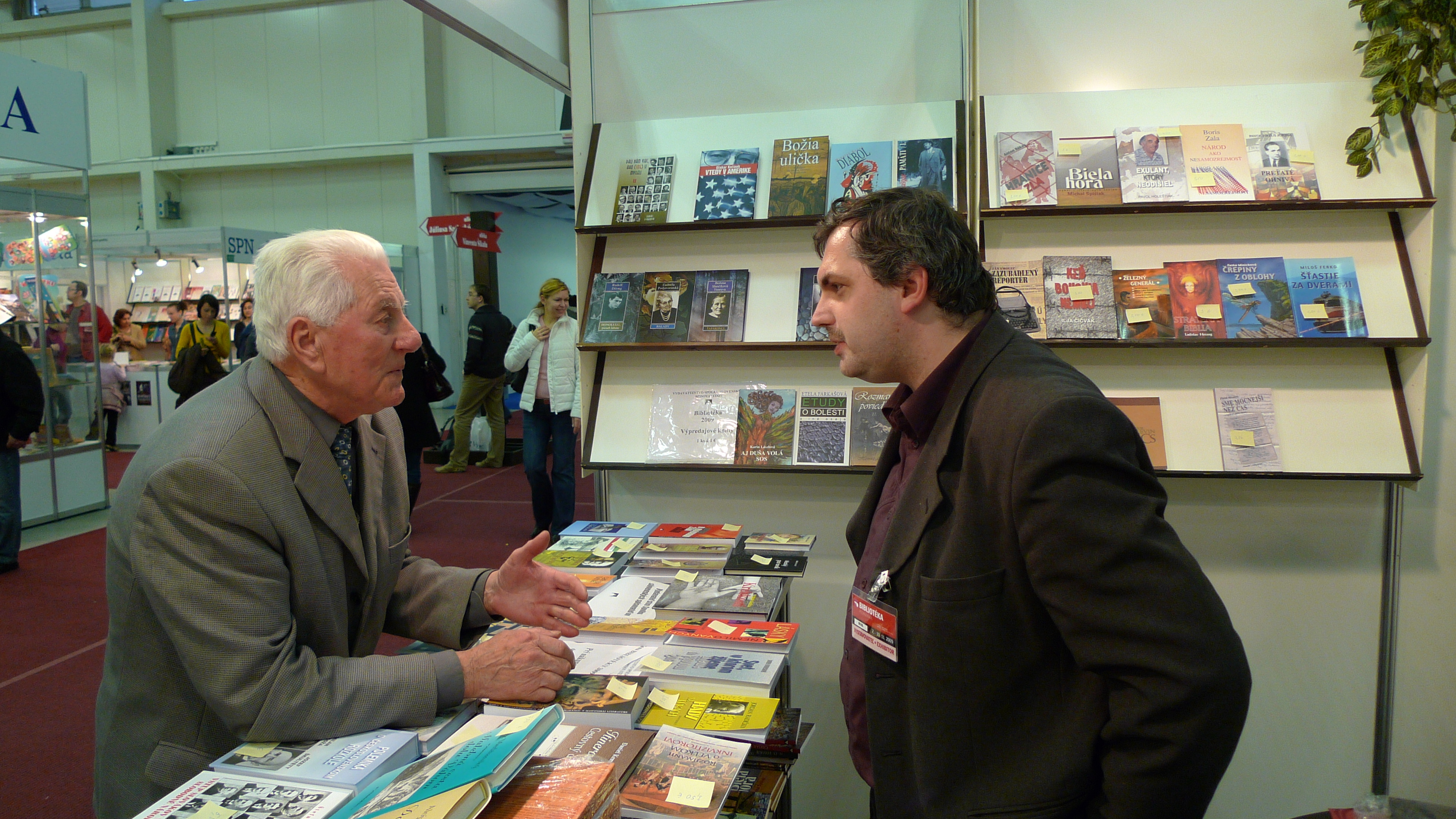 Slovak writers Ladislav Ťažký and Roman Michelko at the Book Fair of Bibliotéka 2009 in Bratislava